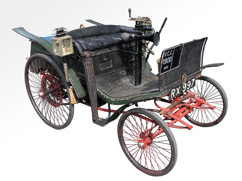 Benz Dogcart, registration RX997. 3.5 hp Dogcart Voiturette, Plate 'Helmetson's Ltd.' Benz's system, 6 Dean Street, Oxford Street, London. Made by Karl Benz Motors, of Mannheim, Germany Editing Undertaken: Background removed, Auto Levels